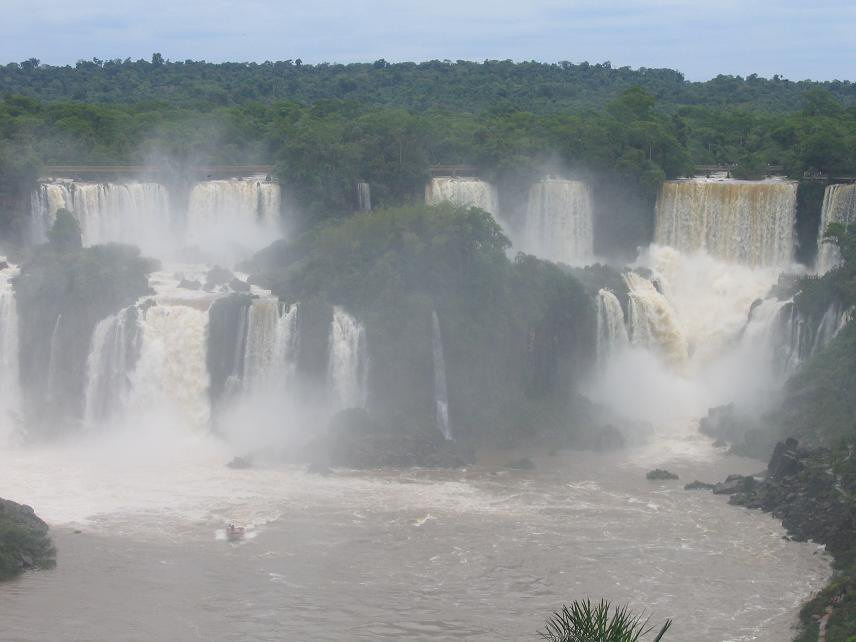 Iguazu Falls, in Misiones (Argentina).